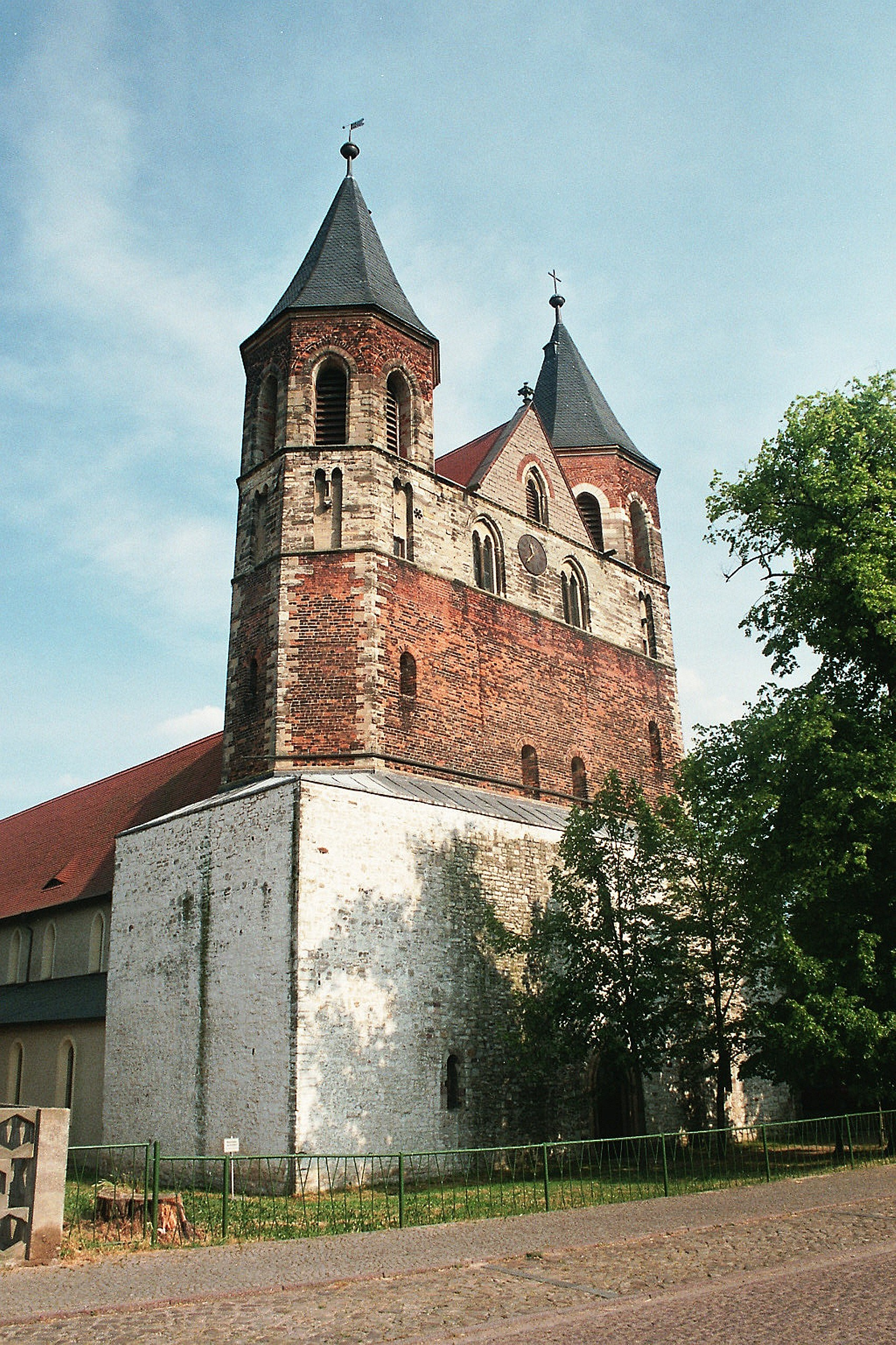 Aken, St. Mary´s Church